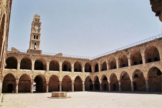 For more pictures and videos of Israel, please visit here. The Khan al Umdan in Akko